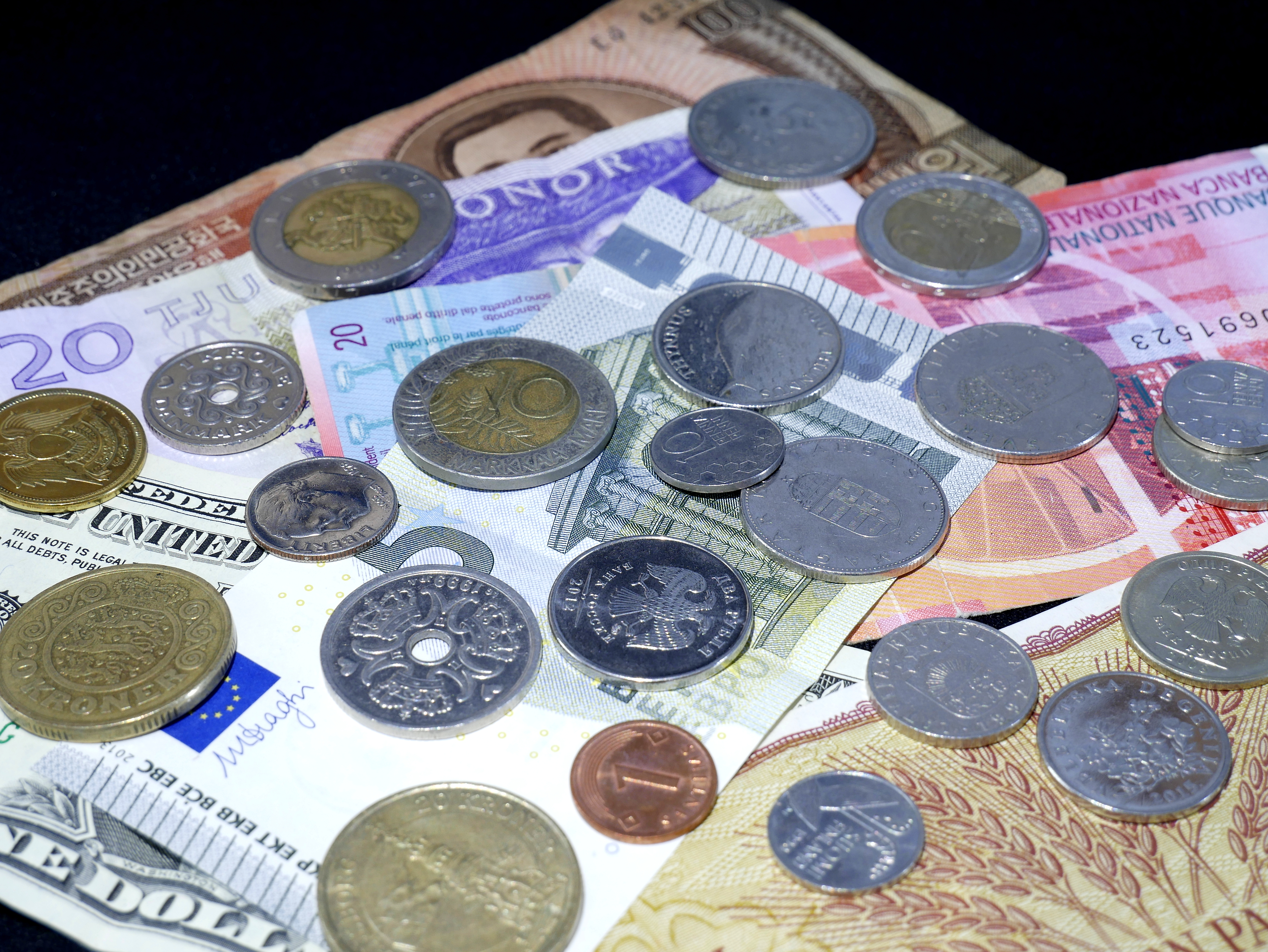 Different cash banknotes and coins.